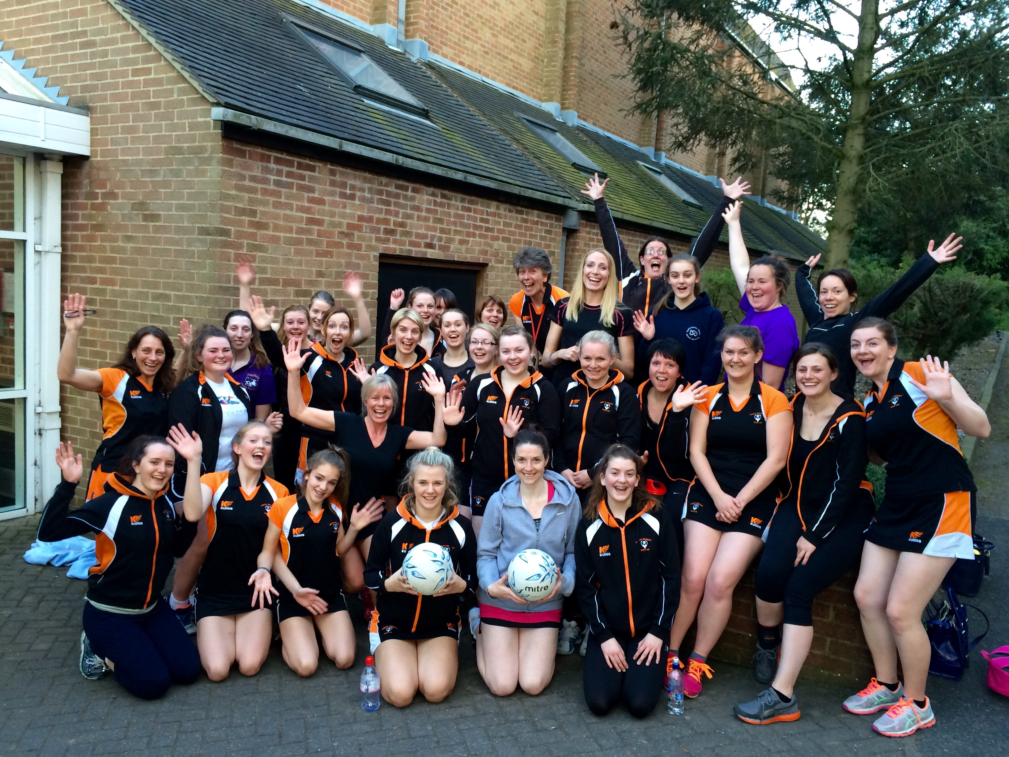 Some of the members of the four senior teams